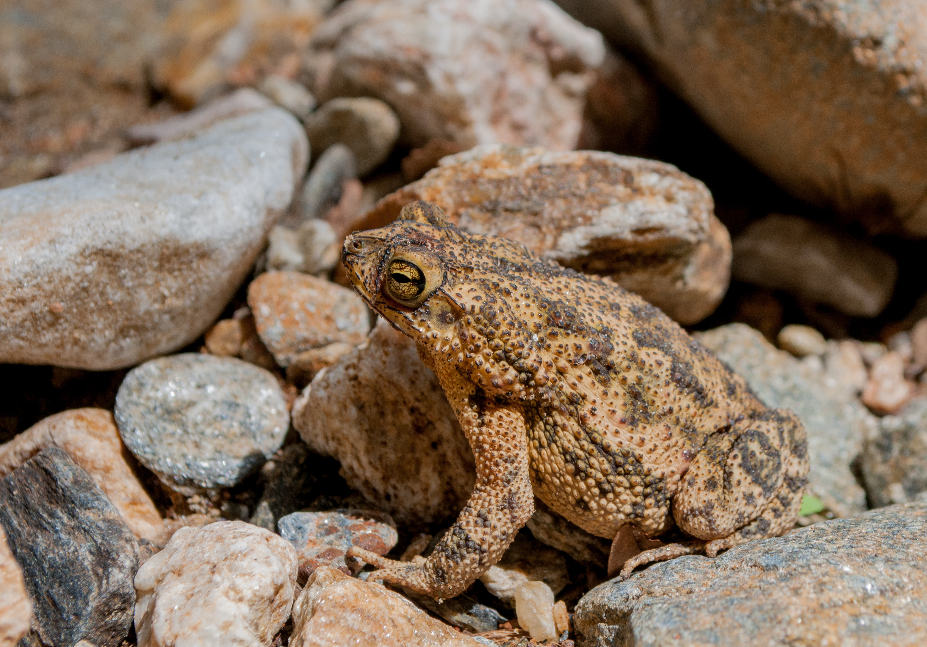 Rhinella granulosa in San Juan Bautista River